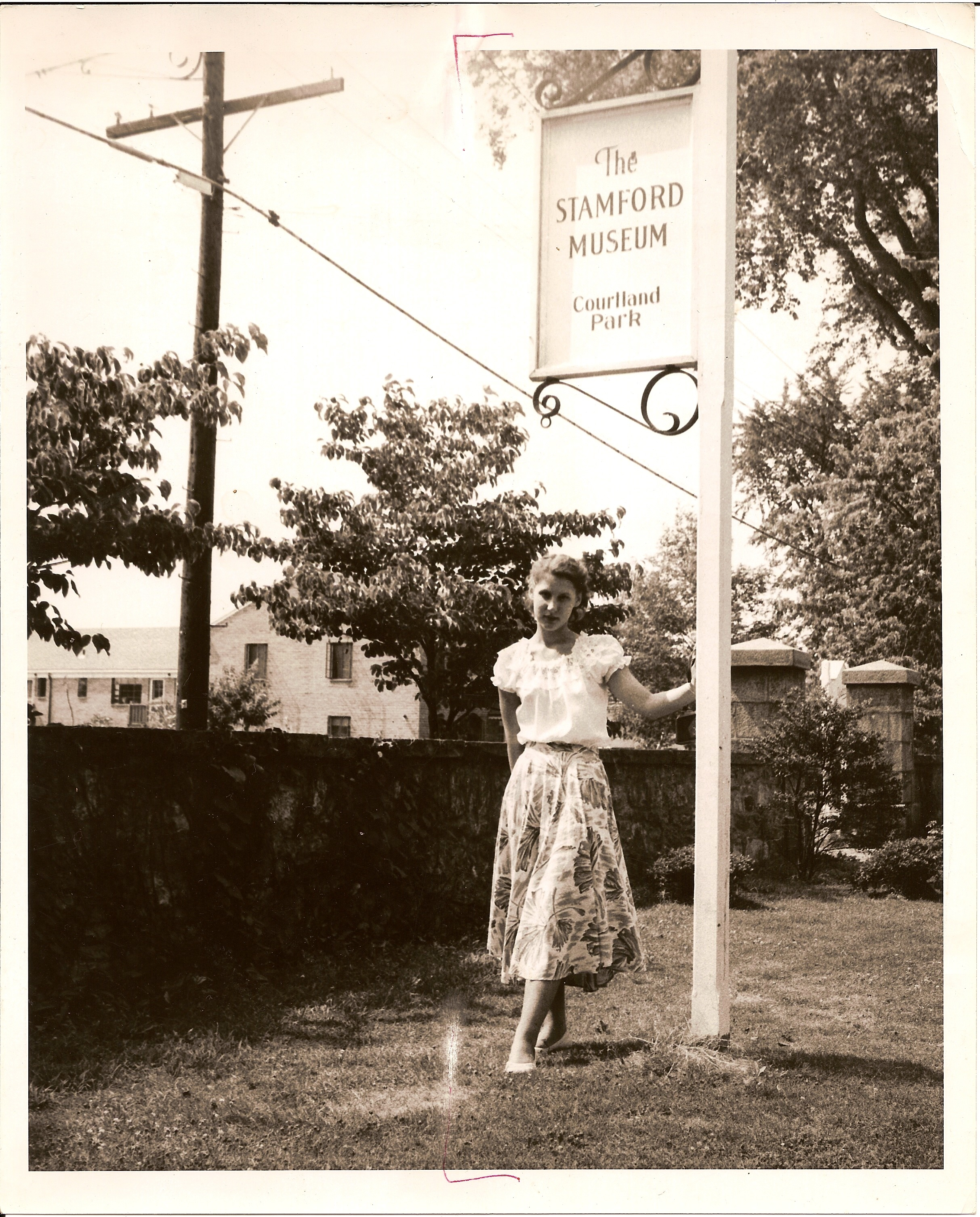 Photo of Stamford Museum & Nature Center from Courtland Park